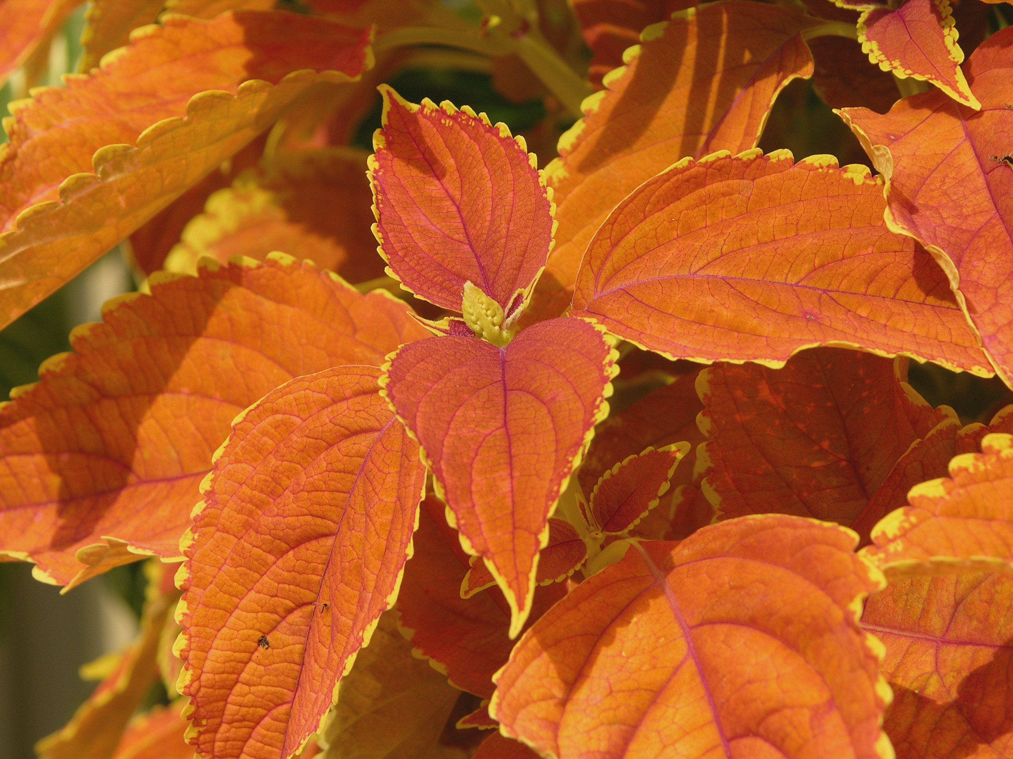 A picture the Solenostemon scutellarioides en (Coleus x hybridus) 'Rustic Orange' plant. Photo taken at the Chanticleer Garden where it was identified.